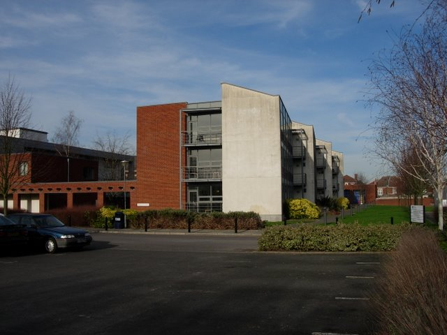 Avenue Campus in Highfield, Hampshire; part of the University of Southampton. This is part of the extension to the original Tauntons College building.